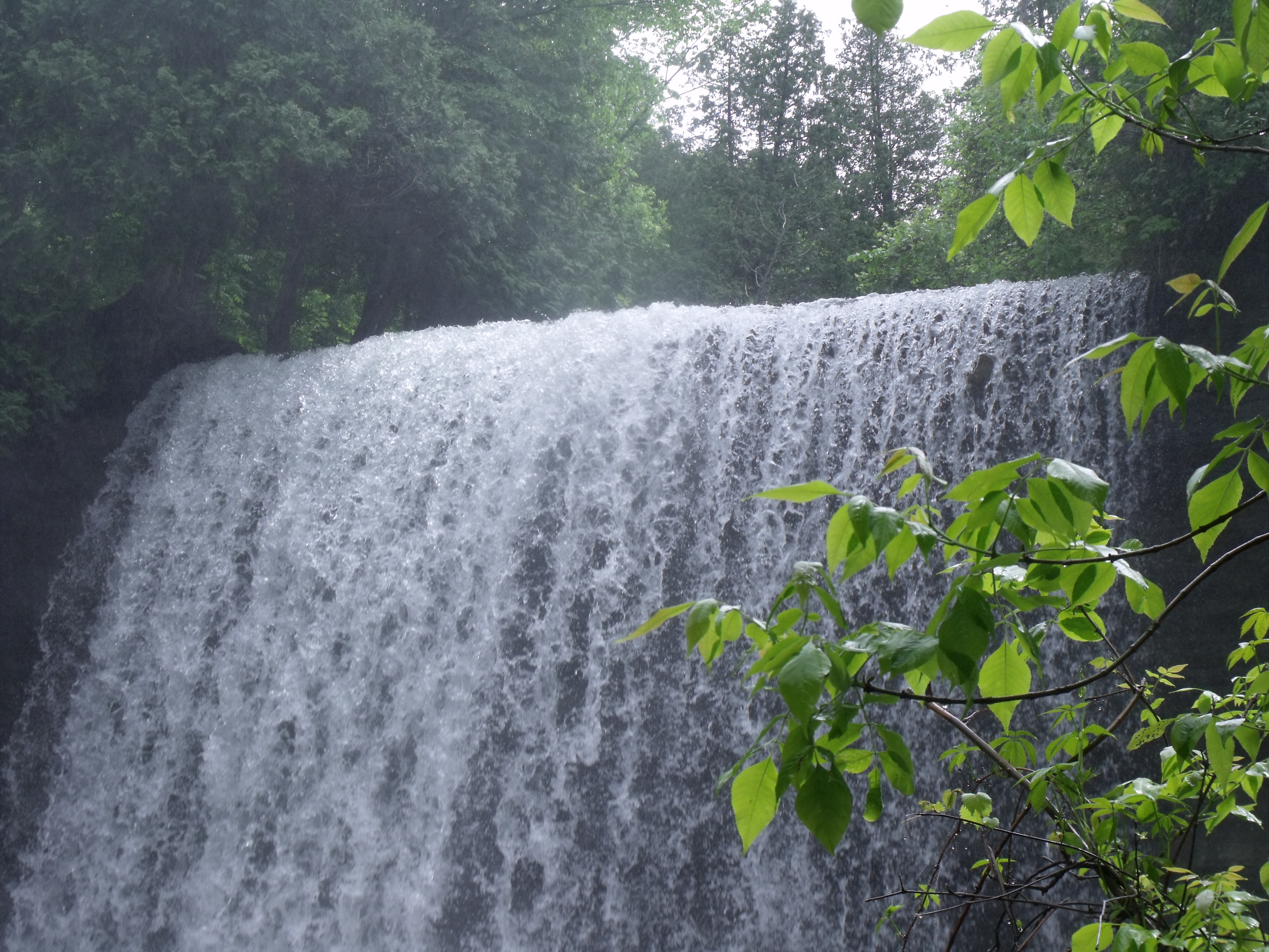 This is a photo of the top of Bridal Veil Falls in Kagawong, taken from the lookout point directly downstream.